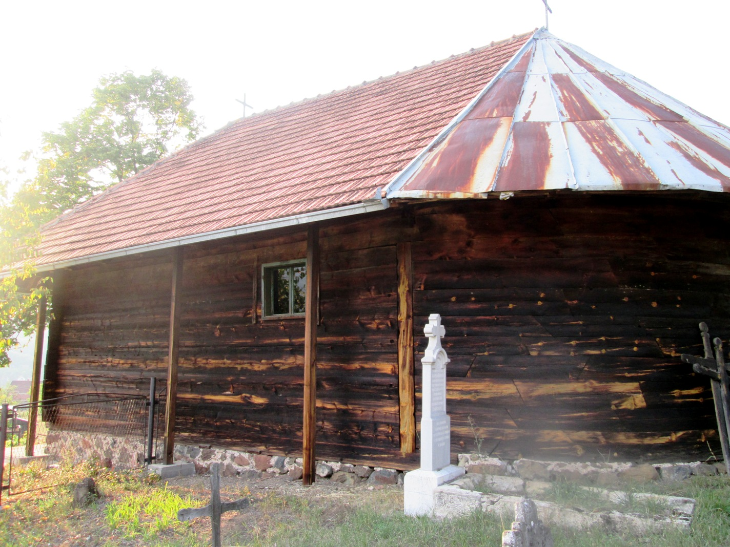 This image was uploaded as part of Trace of Soul 2015.